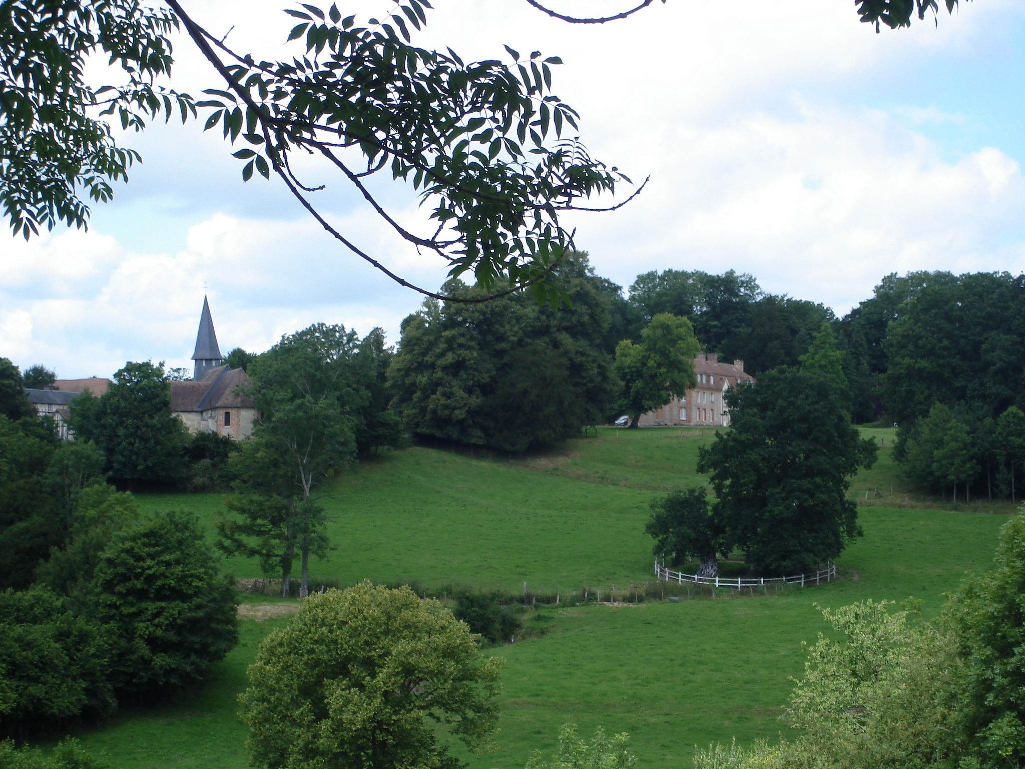 Miraculous source of Saint-Méen, the church and the manor of the village of Le-Pré-d'Auge (Calvados - FRANCE). The source cures skin deseases. The sore must be cleaned with a tissue soaked with water, and requests must be addressed to Saint-Méen. The tissue is then hung to a thousand old oak.